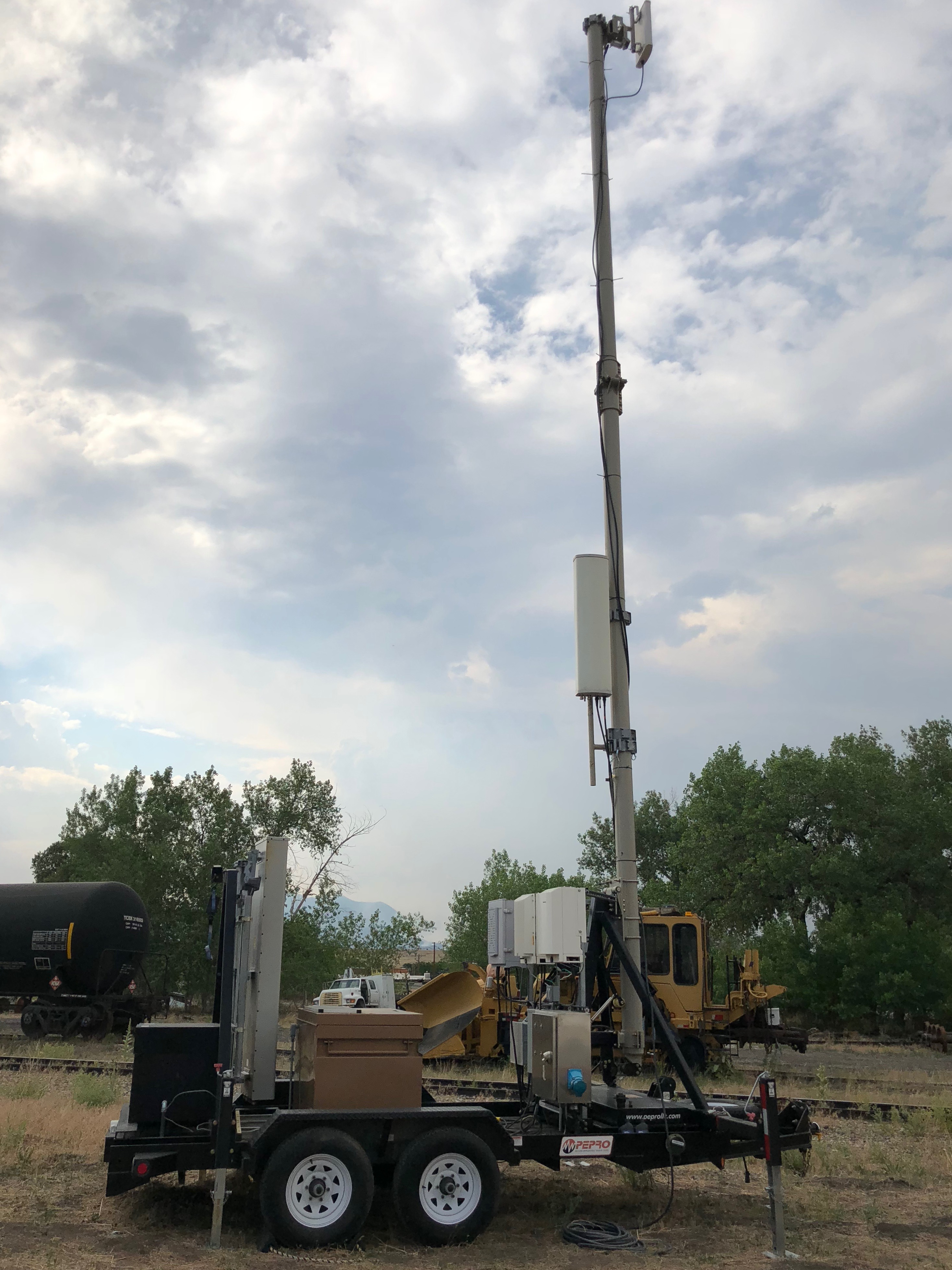 This is a temporary Verizon cell phone tower used for emergency coverage during the 2018 Spring Creek Fire in Huerfano County, Colorado.